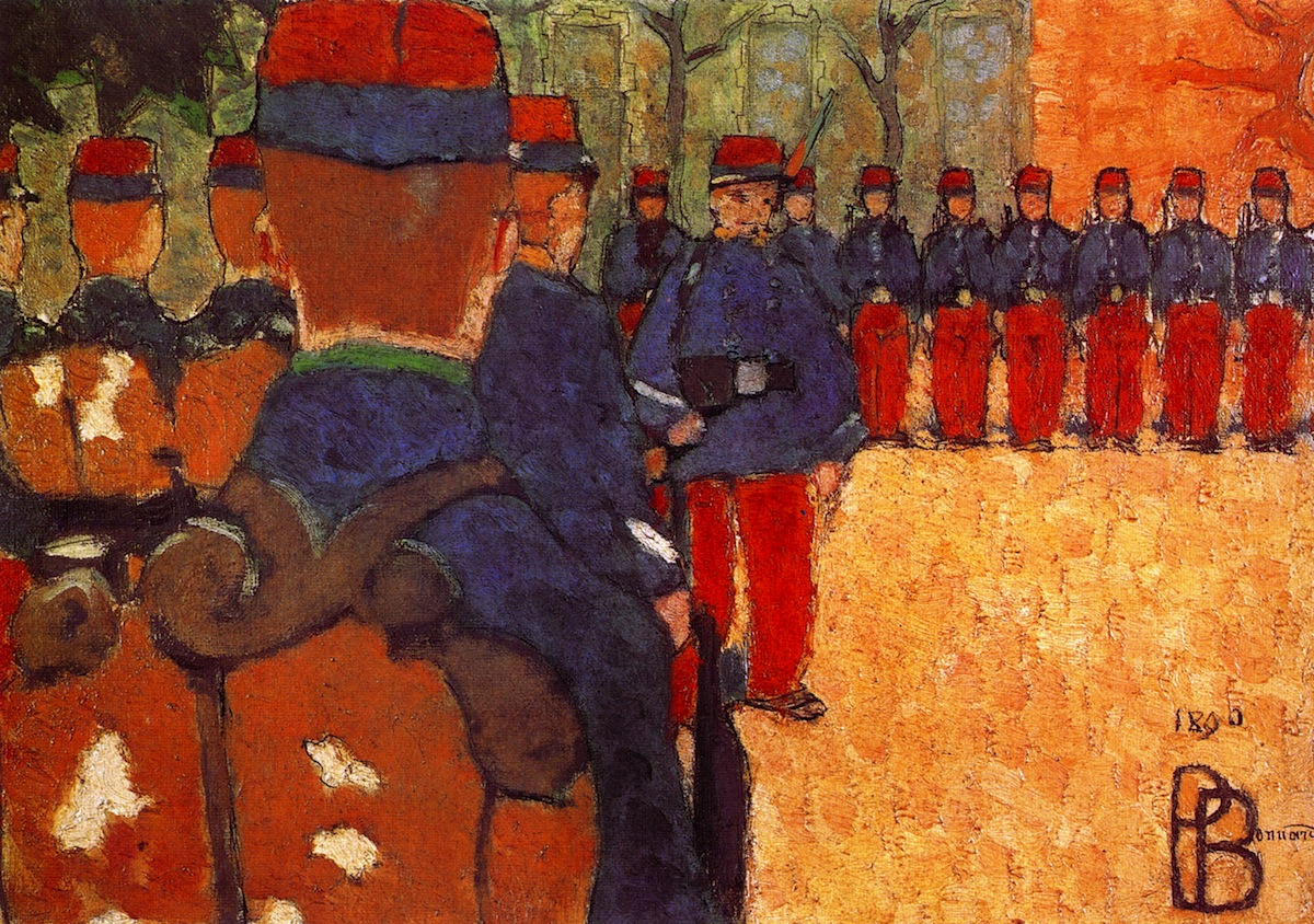 The Parade Ground